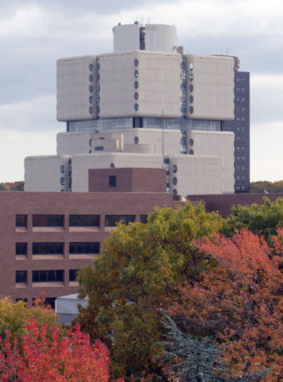 Health Science Center